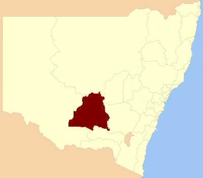 Location of the New South Wales Legislative Assembly electoral district within New South Wales. Reference: [1]